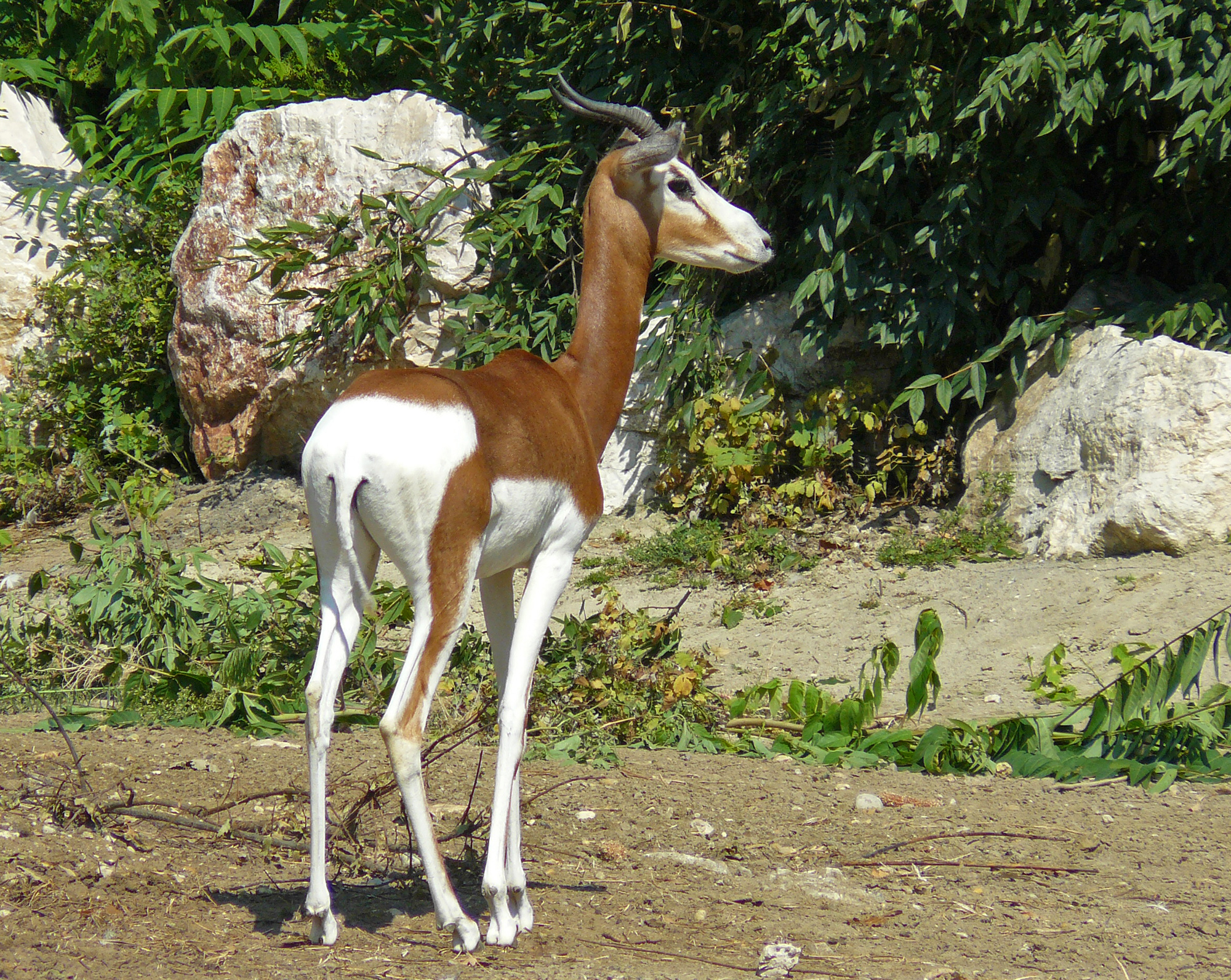 Taken in the Zoo, Budapest.